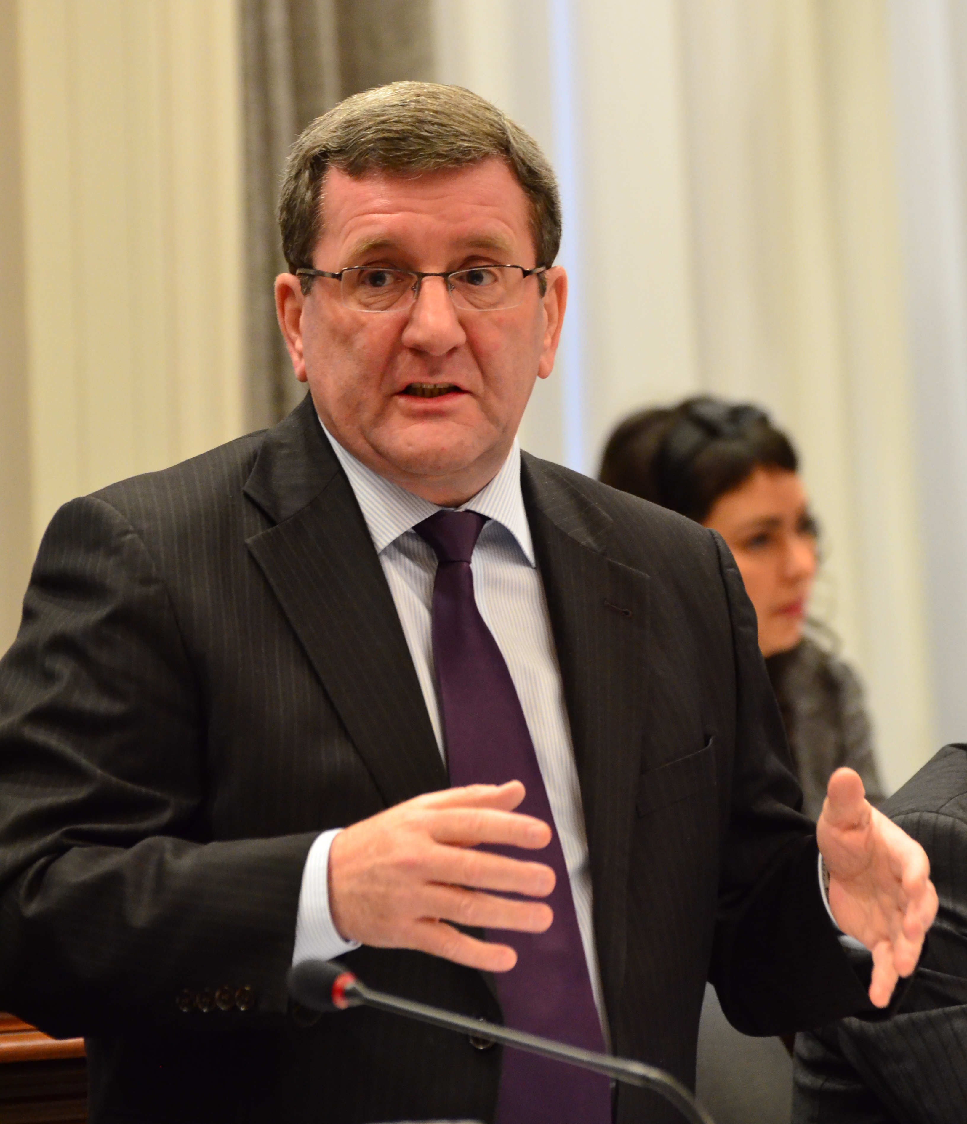 Quebec City's mayor Régis Labeaume at municipal council meeting.